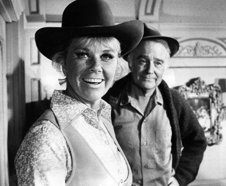 Photo of Doris Day and Lew Ayres from the television program The Doris Day Show.